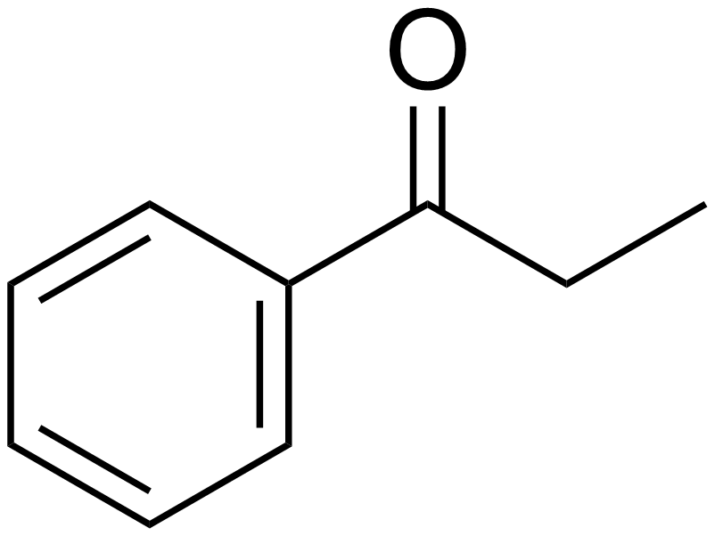 chemical structure of propiophenone